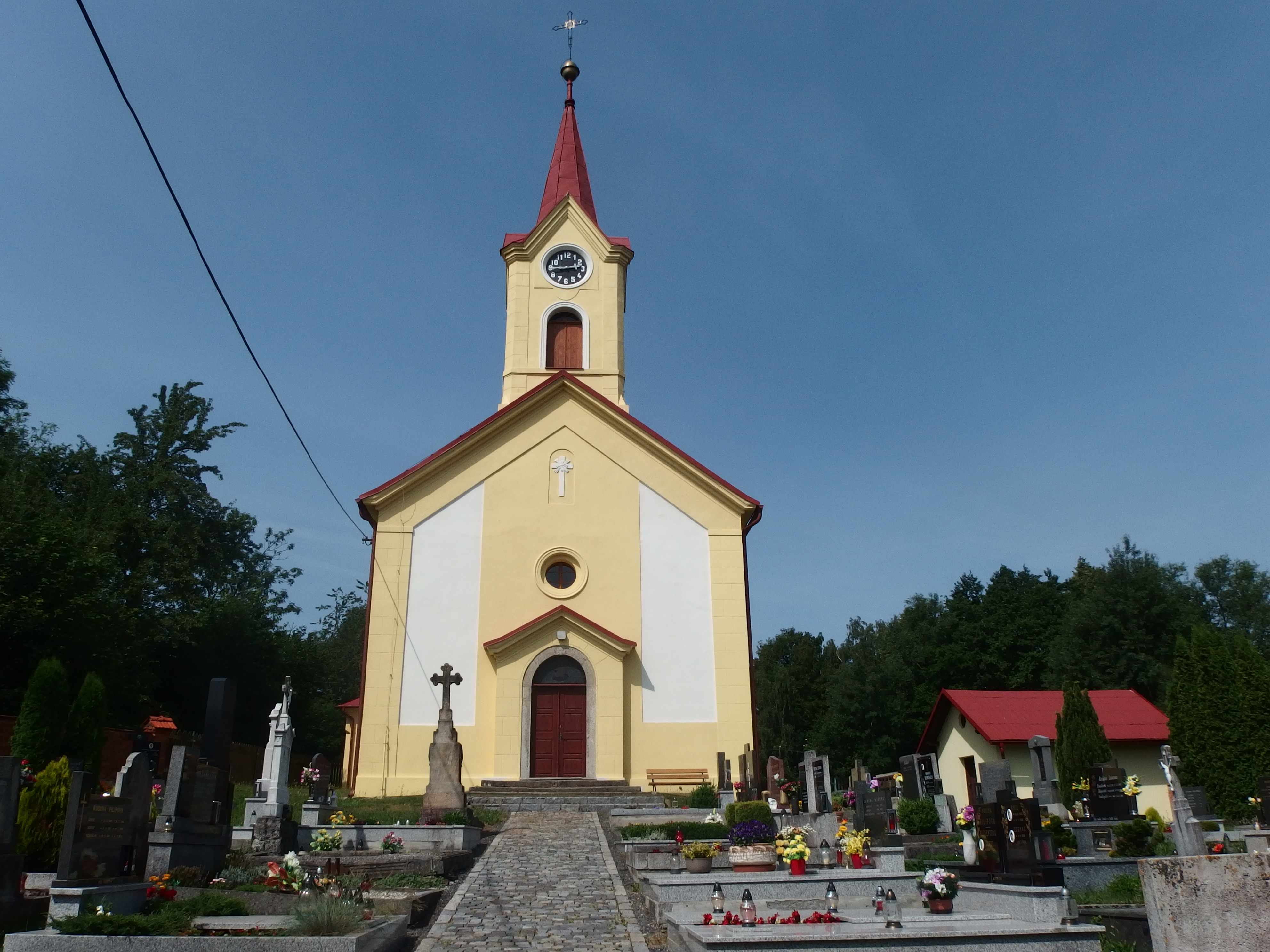 Odry, Nový Jičín District, part Dobešov, Czech Republic. Church of Saint Nicholas.